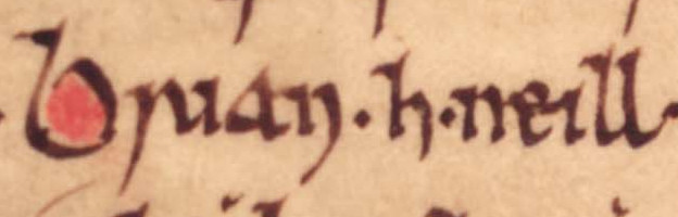 An excerpt from folio 68r of Oxford Bodleian Library MS Rawlinson B 489 (the Annals of Ulster). The excerpt concerns Brian Ó Néill, King of Tír Eoghain (died 1260).